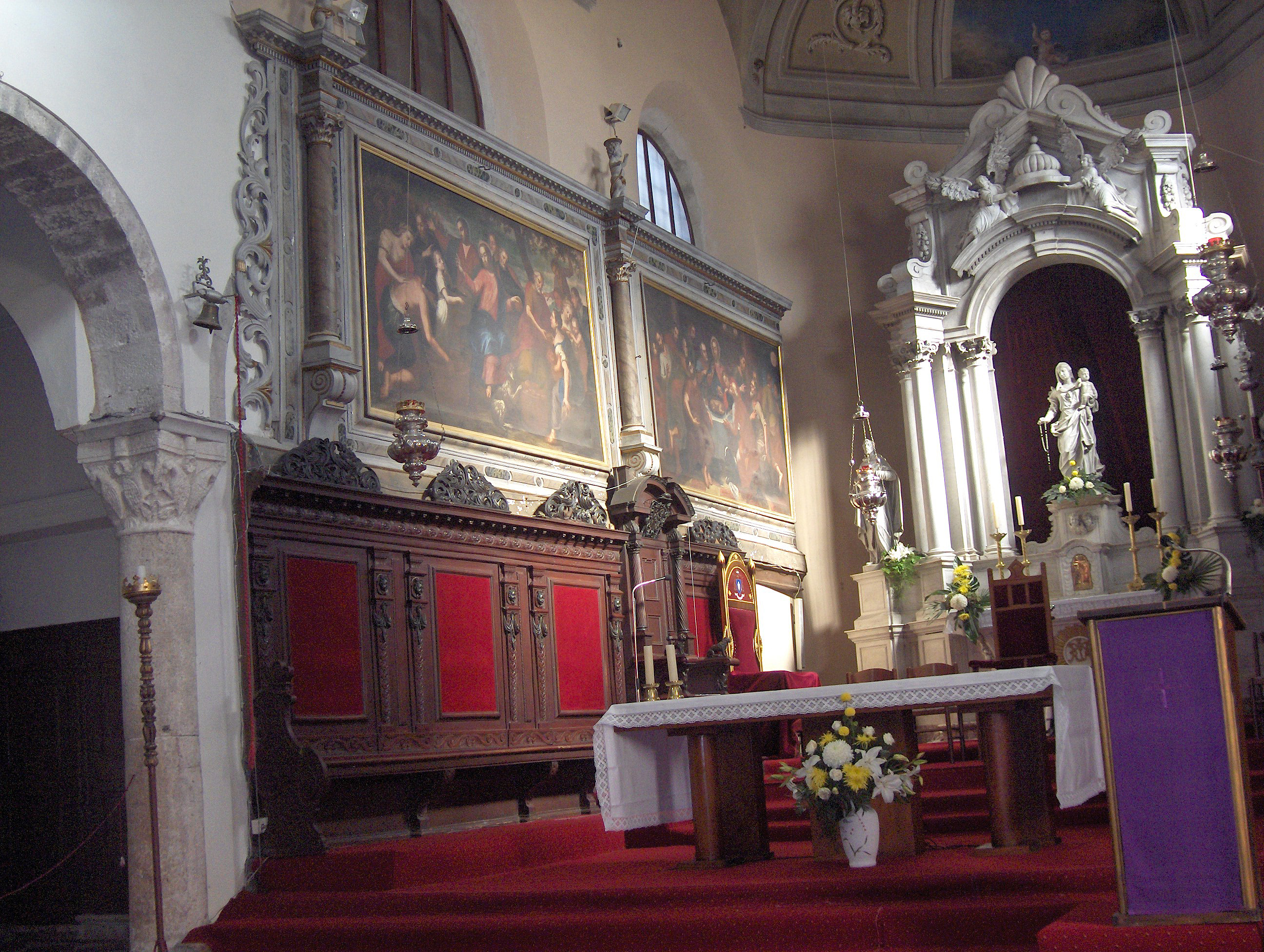 Choir of the Church of the Assumption; paintings by Cristoforo Tasca, Krk, on the island of Krk, Croatia